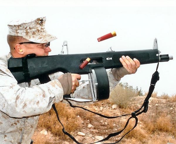 A soldier shoots a AA-12